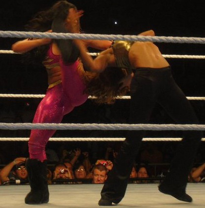 Melina Perez performing her sunset spilt finisher on Alicia Fox